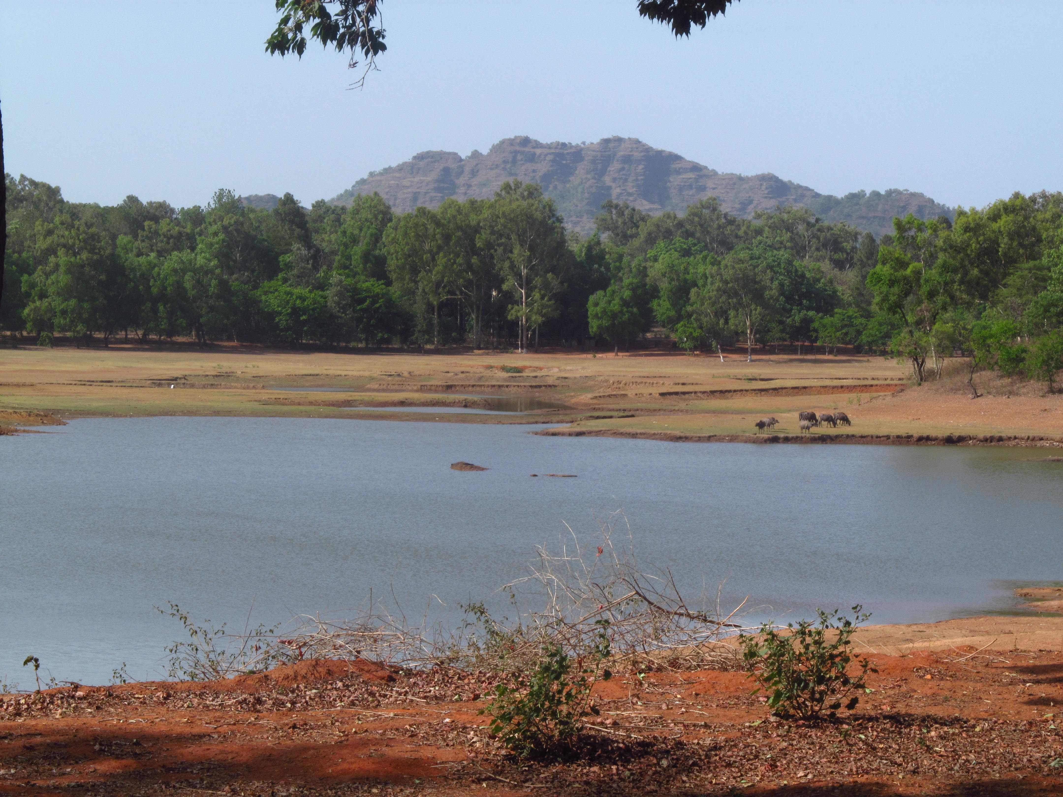 Boat Club lake is in Panchmarhi town, in Madhya Pradesh, India